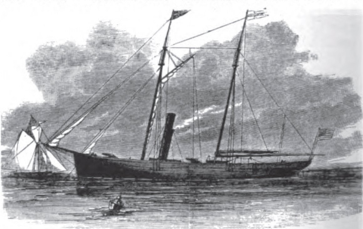 Leonard Jerome's steam yacht Clara Clarita, as originally built in 1864.